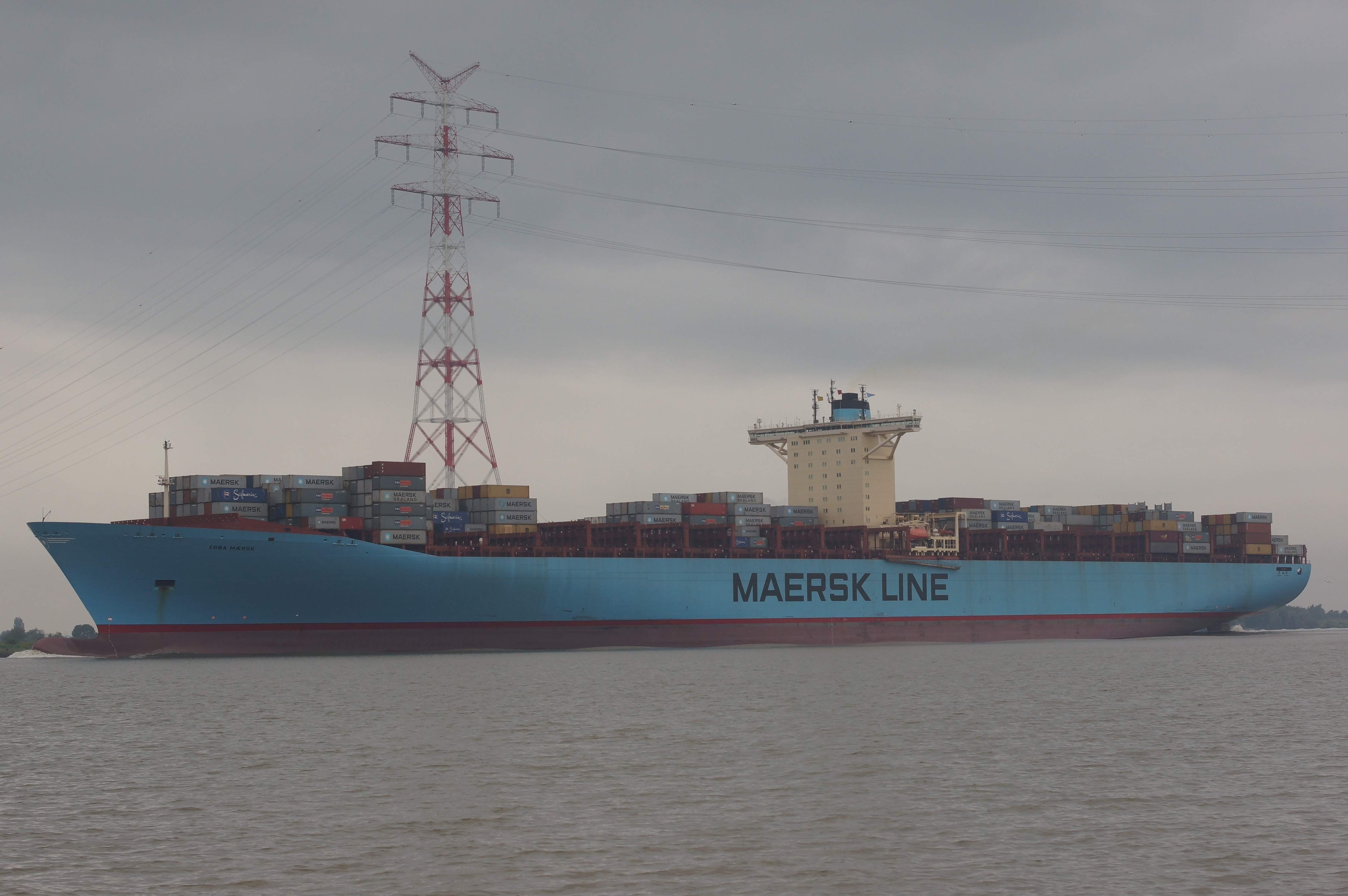 Container ship Ebba Maersk heading Hamburg. In the background the southern carrying pylon of Elbe crossing 2.